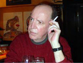 Mícheál Ó Domhnaill in Ireland.